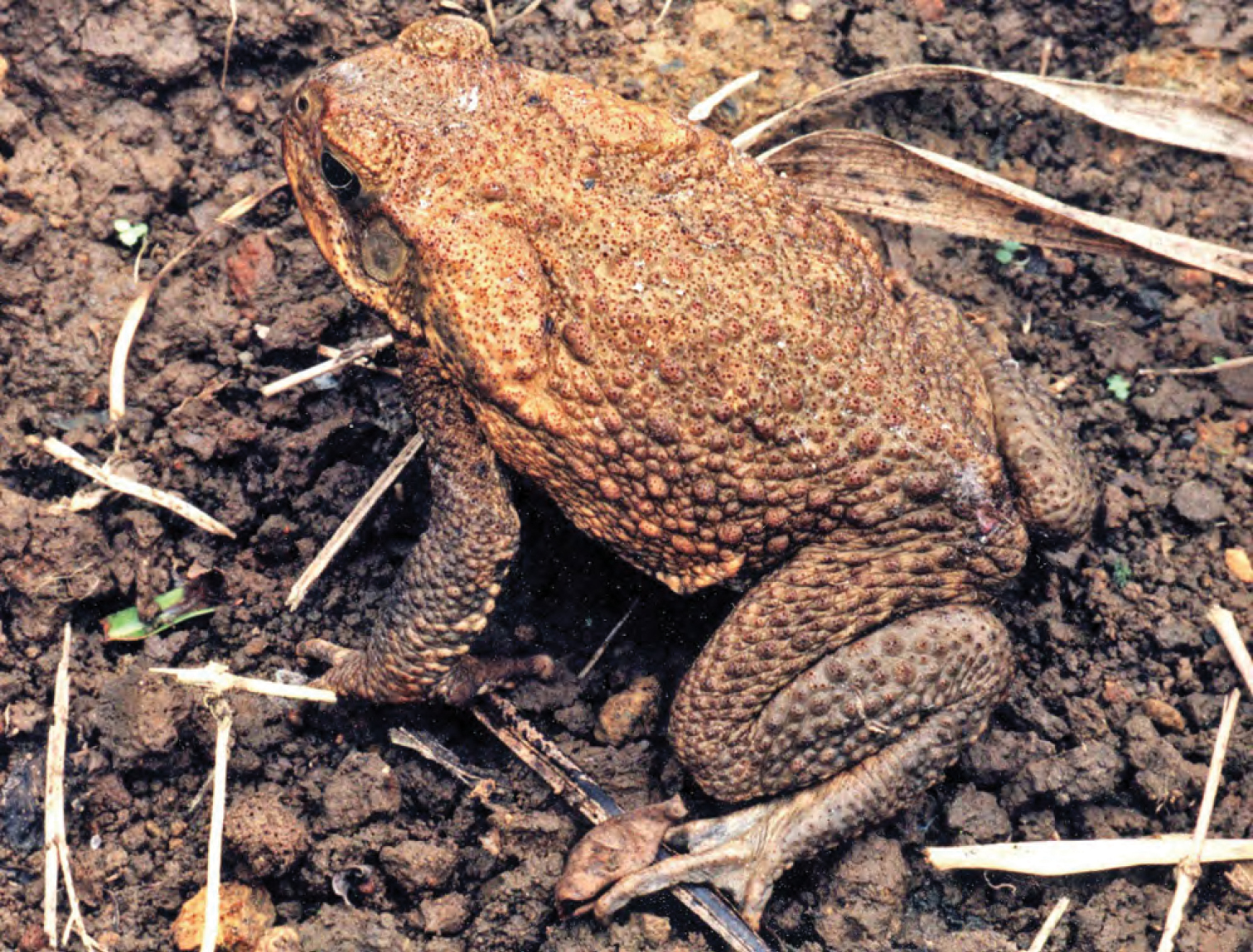 Rhinella marina at San Mariano. Photo: ACD.